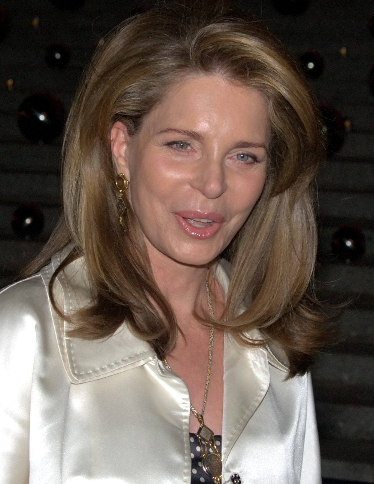 Queen Noor at the 2010 Tribeca Film Festival